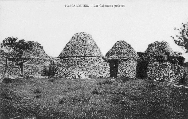 Les cinq cabanons pointus de Forcalquier, Alpes-de-Haute-Provence (le 5e, à gauche, n'est pas visible), popularisés par les cartes postales de la 1re moitié du XXe siècle / The five pointed stone shelters at Forcalquier, Alpes-de-Haute-Provence, of postcard fame in the first half of the 20th century (the fifth cabanon, to the left of the other four, is not visible).